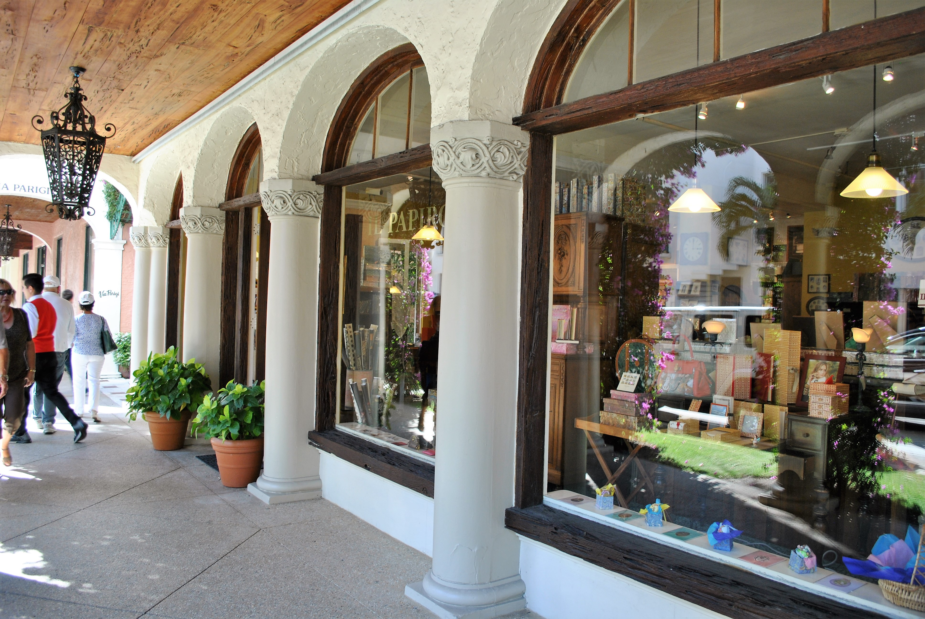 Image originally published in Queer Places: Retracing the Steps of LGBTQ people around the World Authored by Elisa Rolle